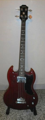 A model of Epiphone EB-0